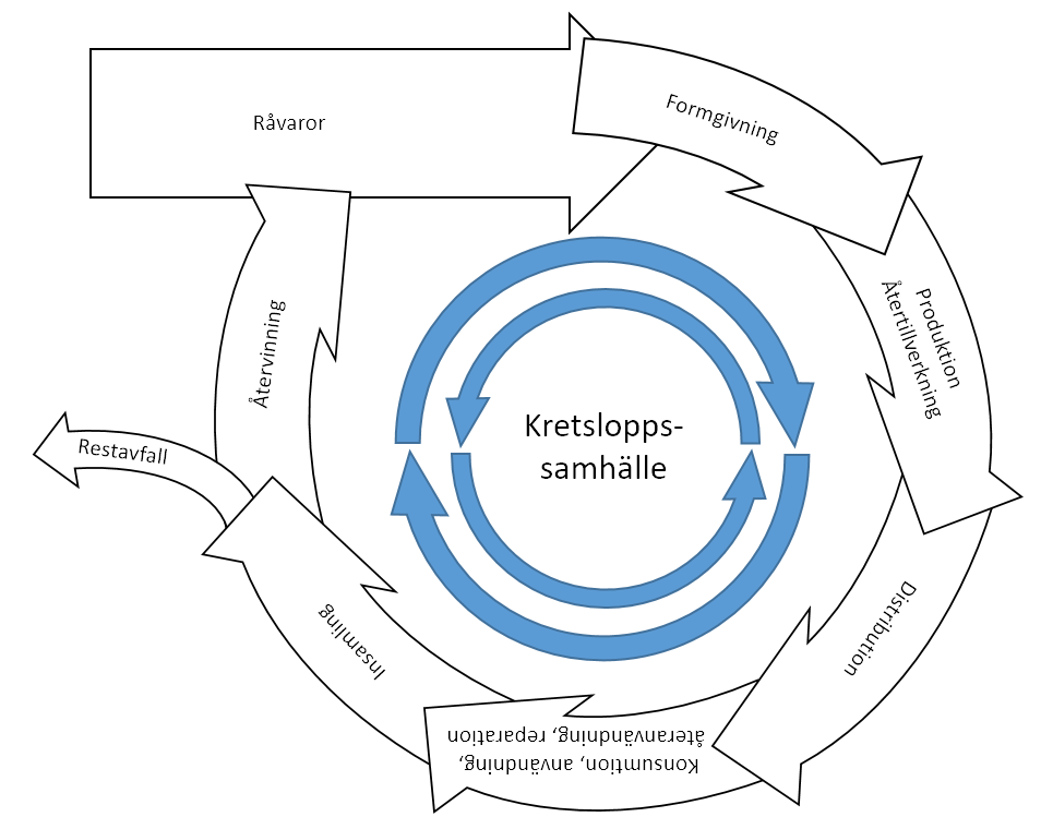 Picture describing the circular flow in a circular society